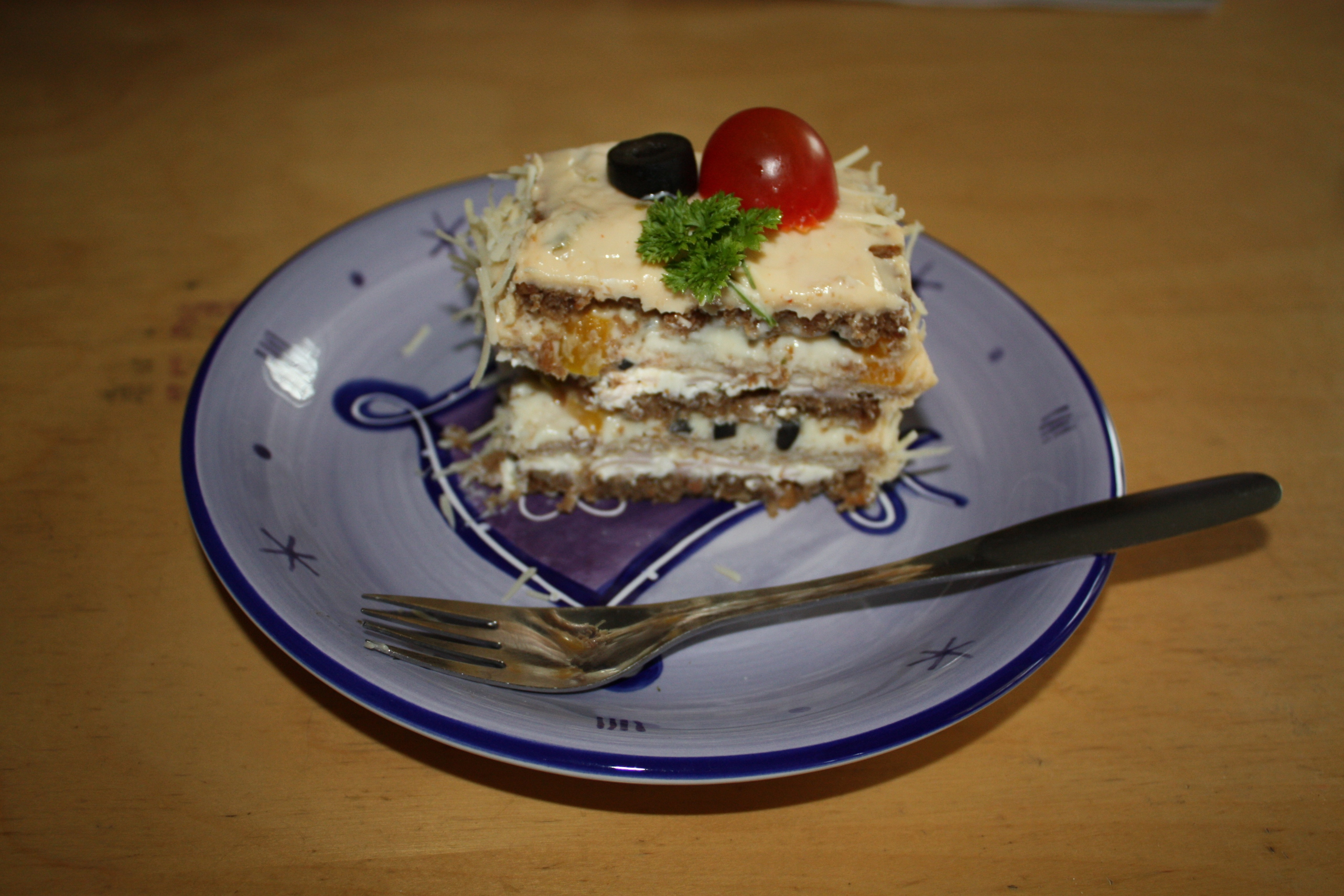 A slice of sandwich cake made of two kinds of bread and two kinds of filling.